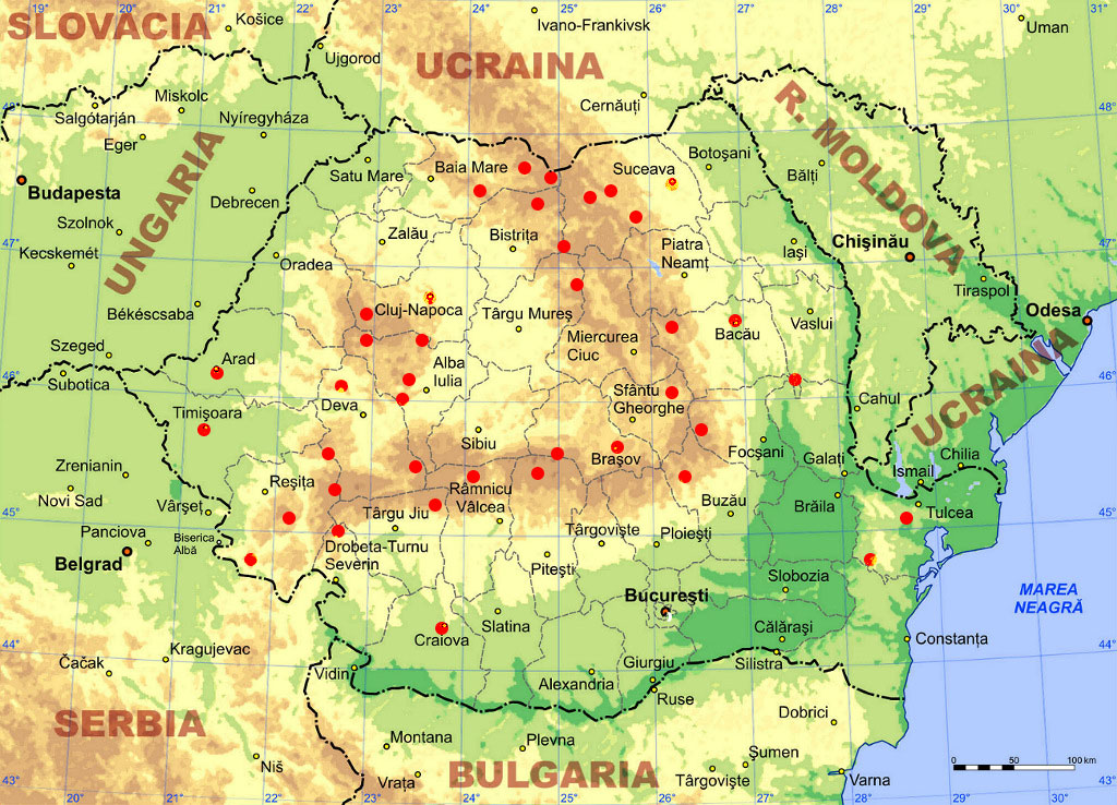 Map locating areas of anti-communist armed resistance between 1948 and 1960 (red circles) on the physical map of Romania, in bitmap format. Orthographic map projection with center at 25 E, 46 N. Keywords: Romania, map, anti-communism, resistance movement